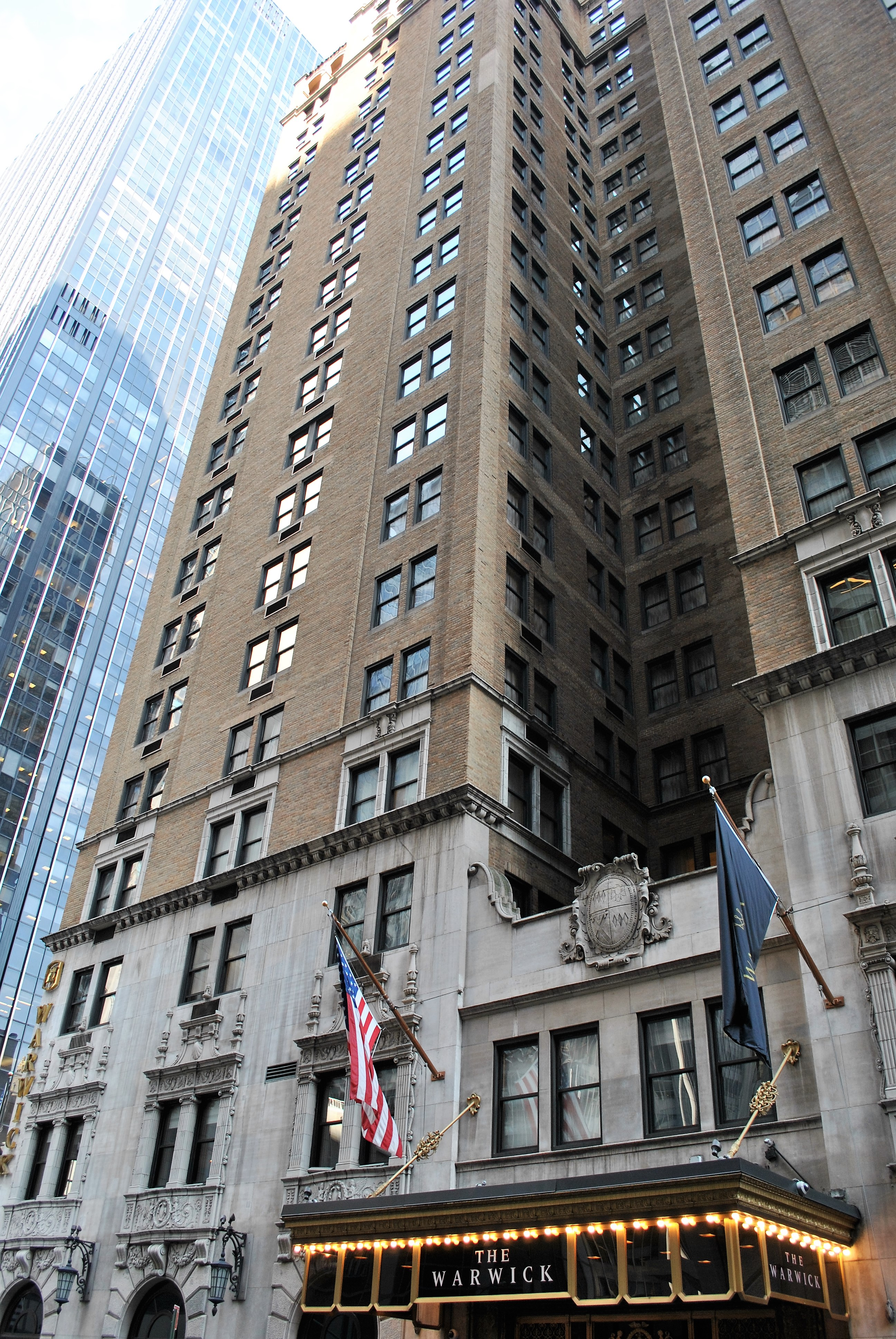 Image originally published in Queer Places: Retracing the Steps of LGBTQ people around the World Authored by Elisa Rolle